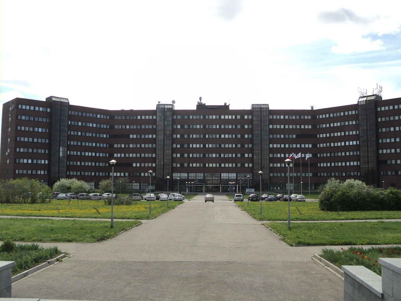 Administrative building of Technical Center "AVTOVAZ". (Architecture of the Soviet Union 1987-1994 ). Development and creation of new models and design cars.